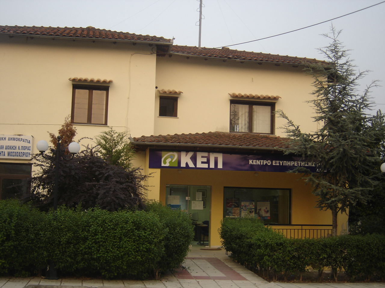 The Centre for Citizen's Service (KEP) of Dimos Petras, in Moscochori.